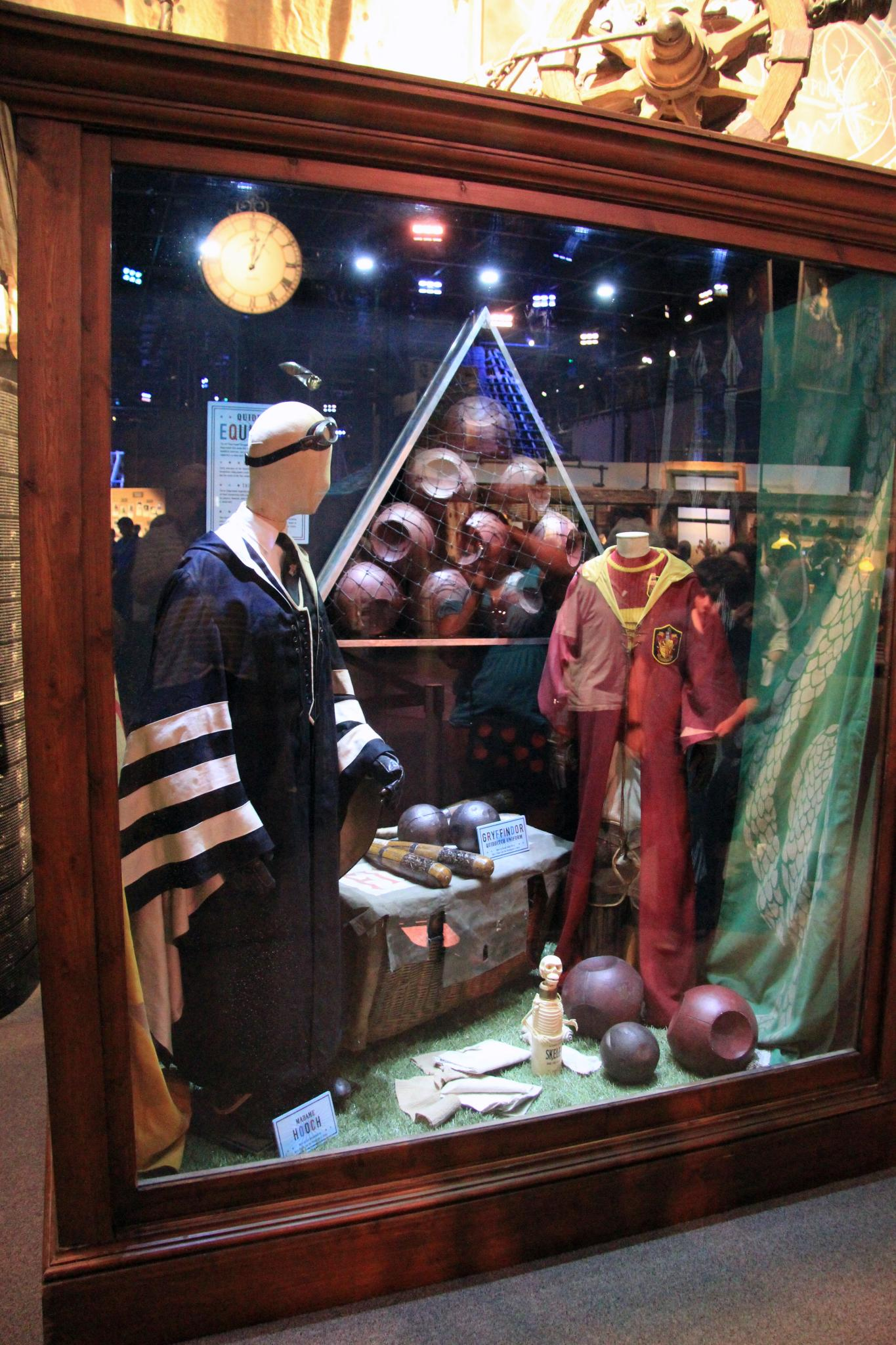 Warner Bros. Studio Tour London: The Making of Harry Potter.